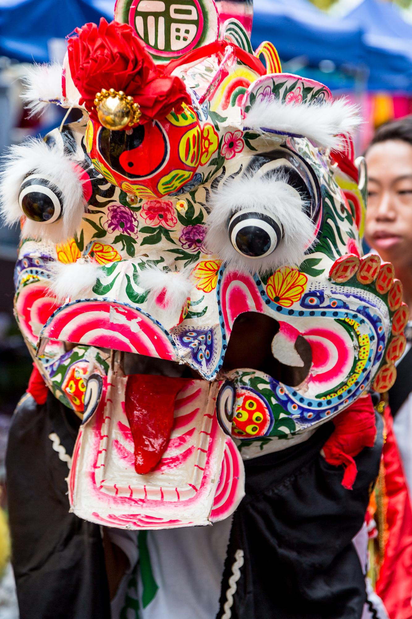 Kota Kinabalu, Sabah: Sunday market at Gaya street during Chinese New Year Celebration 2013